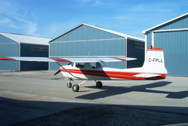 1964 was the first year of the omni-vision rear window and second last year of the square tail.